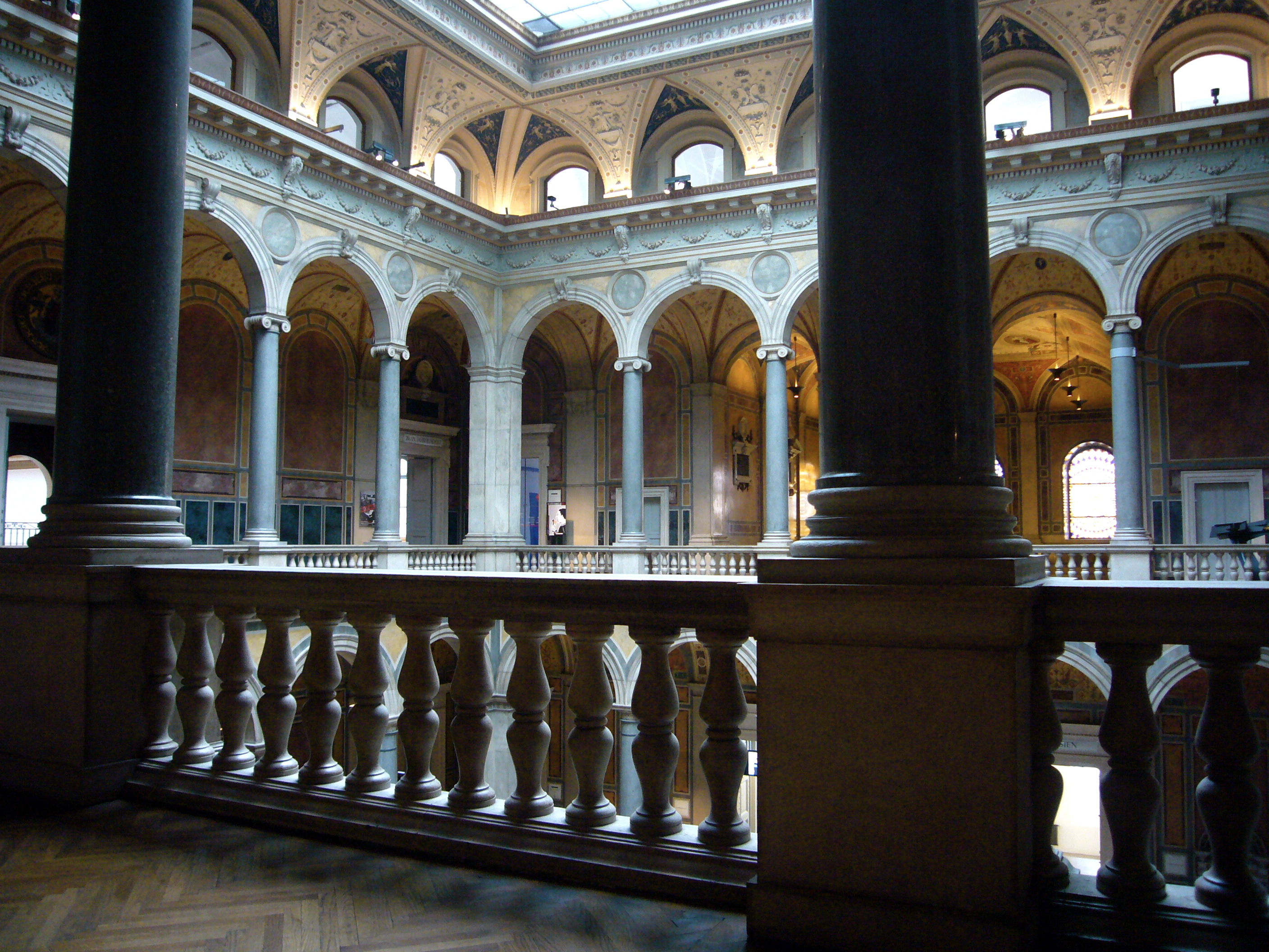 The beautiful, airy interior courtyard of MAK, the Vienna Museum of Applied Arts. Similar in scope and aim to the Victoria and Albert Museum in London, and yet very different from the V&A in how it presents its collection: while the V&A seems to favor juxtaposing old and new decorative art, MAK opted for a modern presentation of old decorative objects. A very interesting museum.